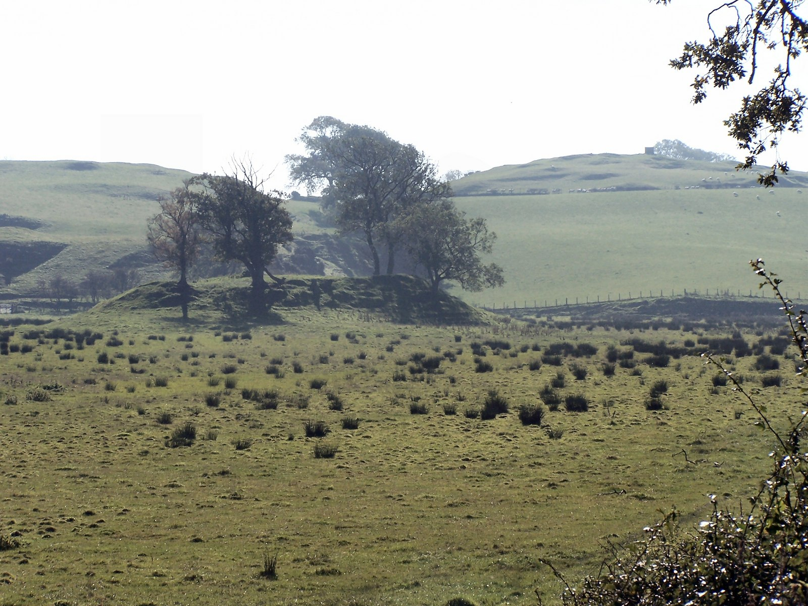 Loch Fergus. This mound was originally an island on which Fergus, King of Galloway had his castle. Hence the name of the present farm.